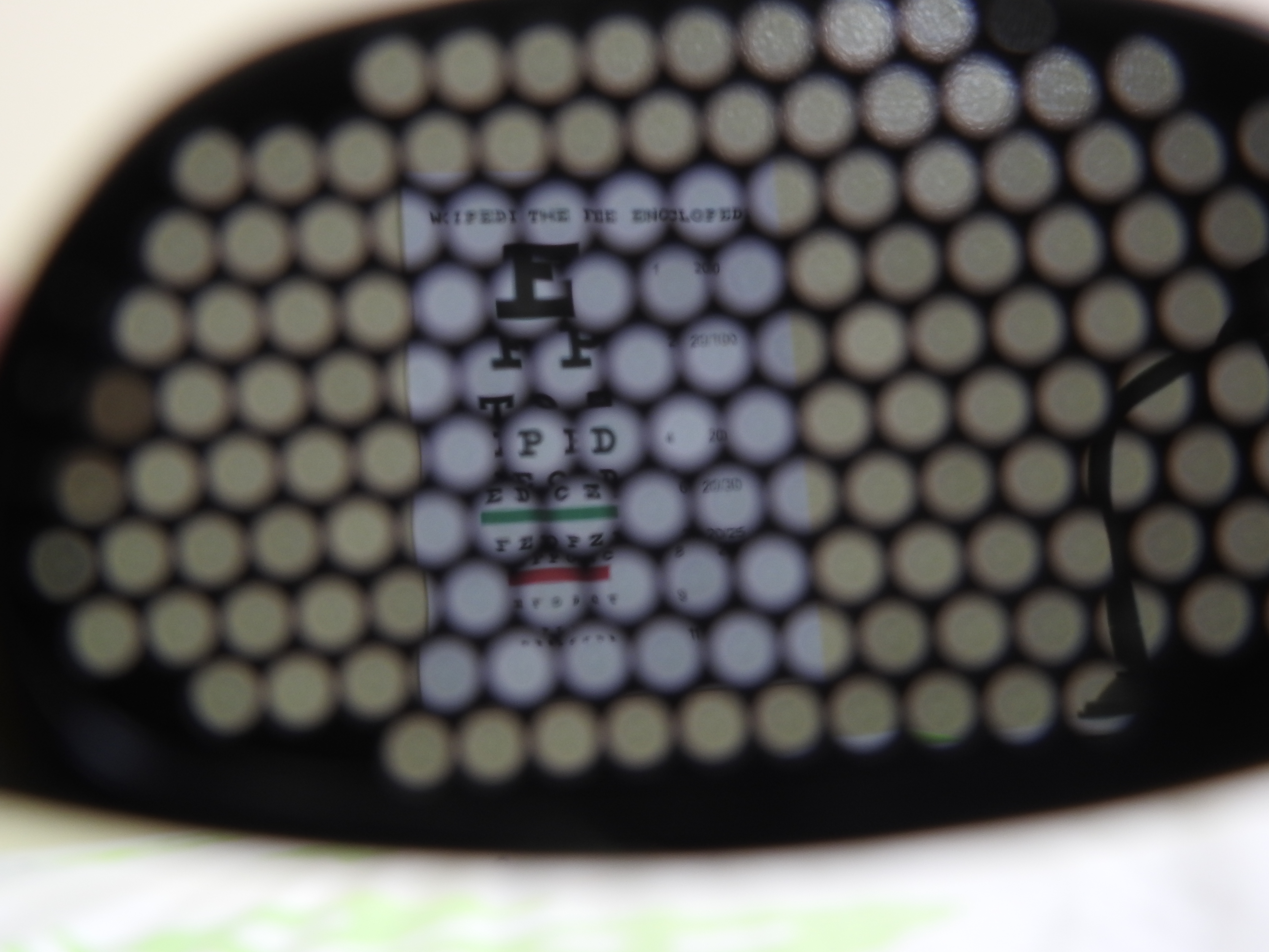 An eye chart seen with pinhole glasses placed over a camera with exactly the same focus as File:Blurry eyechart.jpg. The chart is a print out of File:Snellen chart.svg, slightly edited. This file is meant to be used with File:Blurry eyechart.jpg